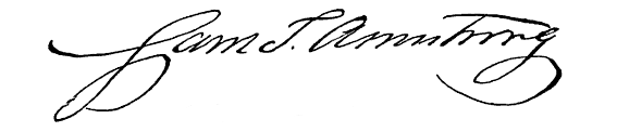 Signature of Massachusetts politician Samuel Turell Armstrong.